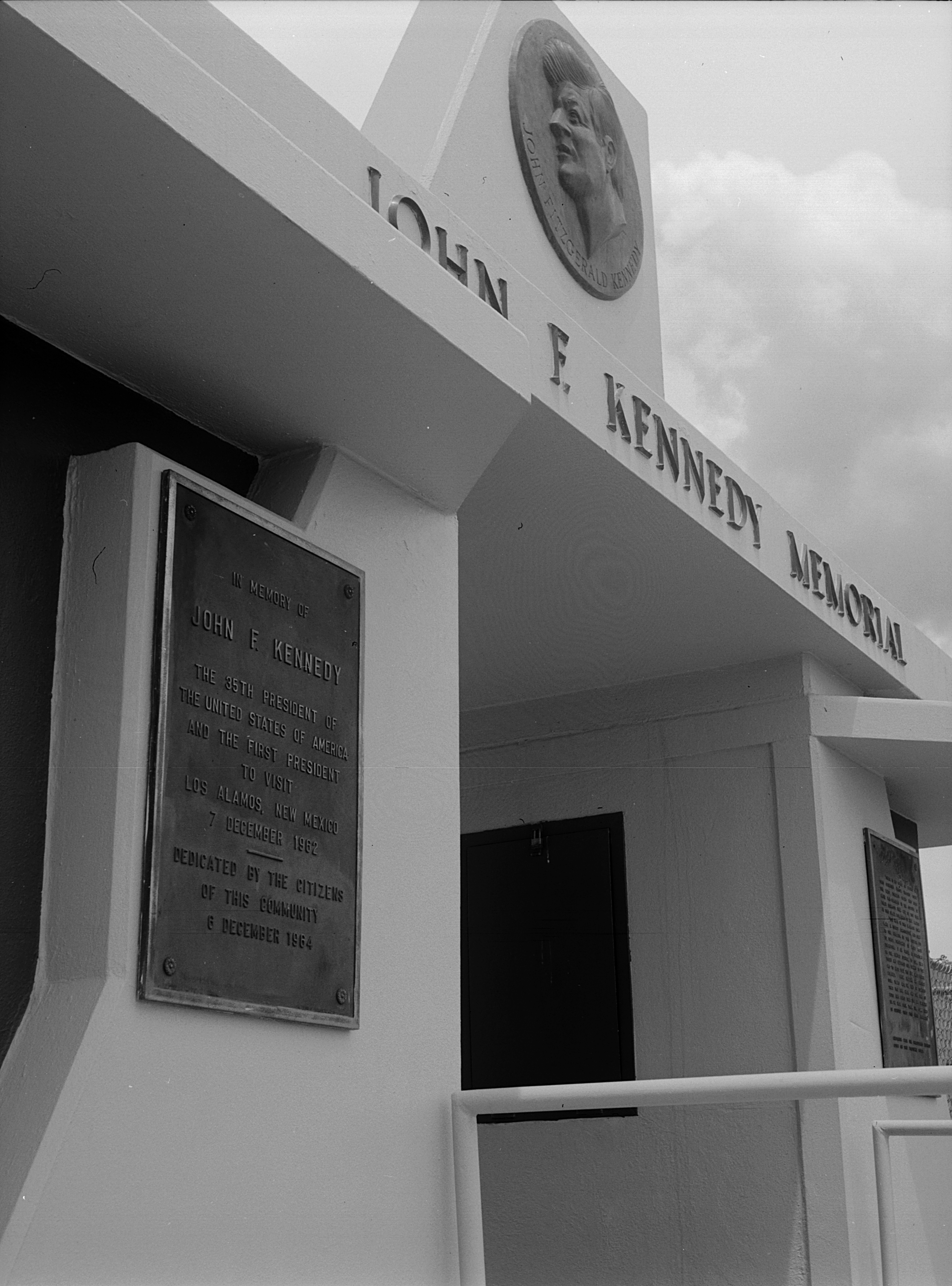 Photo by Markus Berndt taken May 31, 2009. Image obtained with author's consent and located on Flickr under the Attribution-ShareAlike 2.0 Generic (CC BY-SA 2.0) license. [1] Greg Comlish (talk) 15:49, 18 February 2011 (UTC)